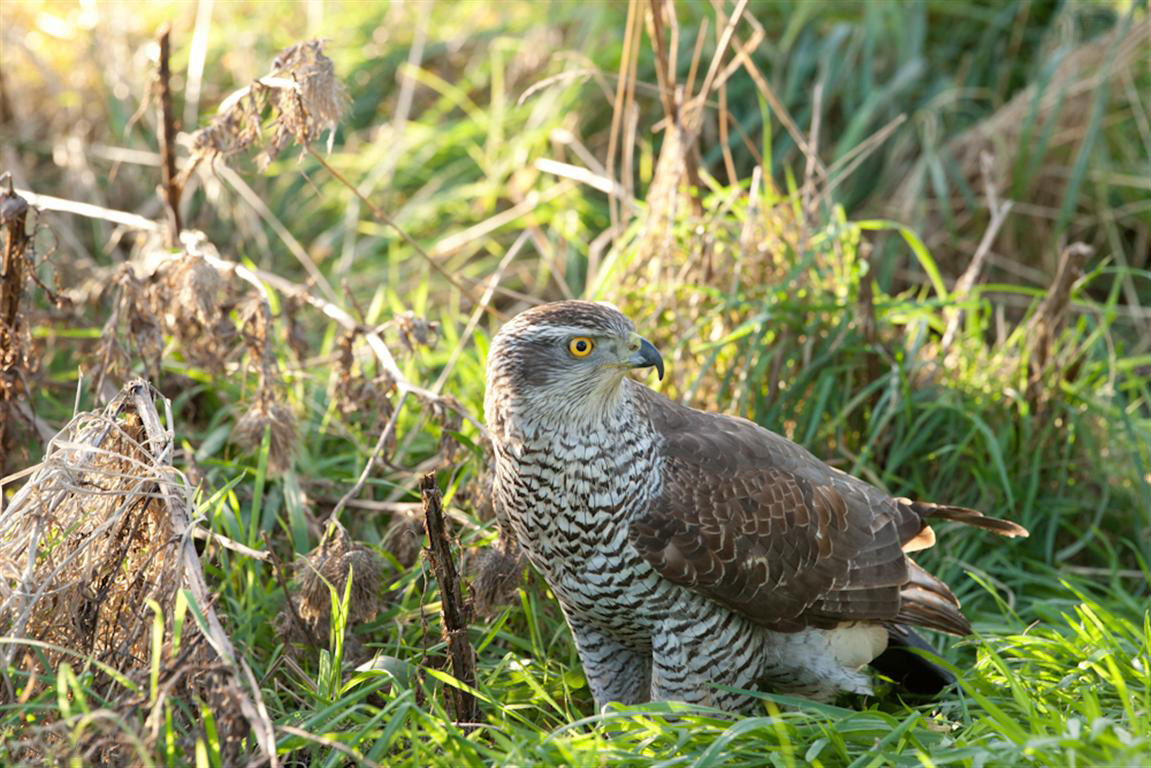 A Northern Goshawk in Fife, Scotland.